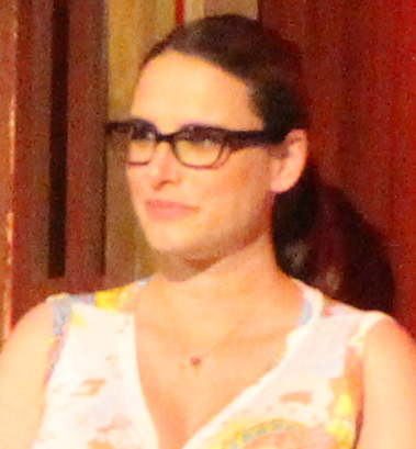 Jessi Klein on stage while Amy Schumer accepts the Peabody for her show, Inside Amy Schumer.